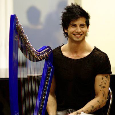 Athy The Electric Harper. Picture taked in Russia. 2012